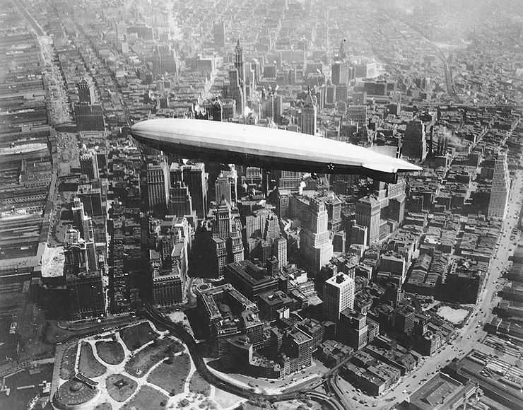 USS Los Angeles (ZR-3) flying over southern Manhattan Island, New York City (USA), 1930.